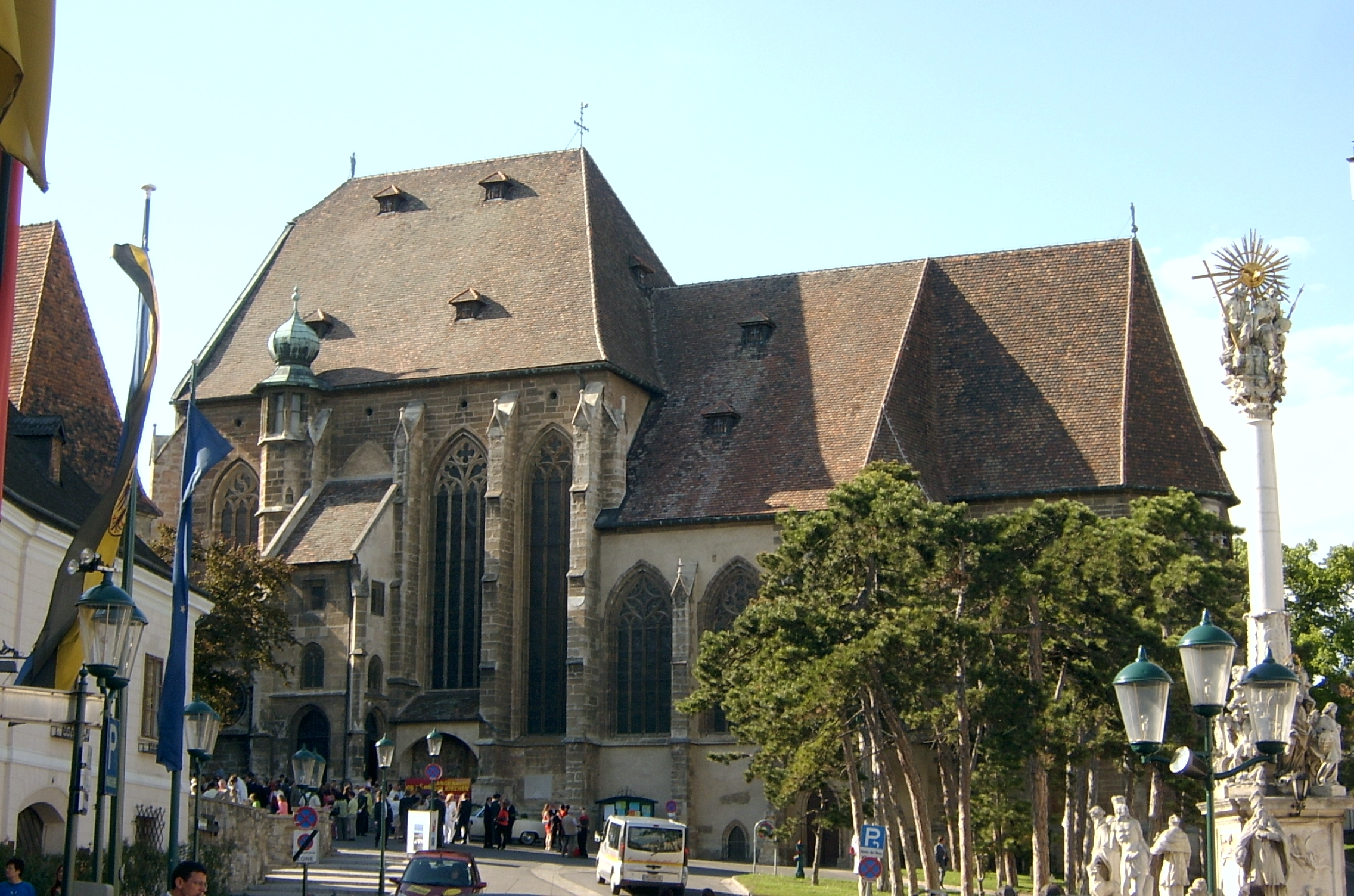 Church in Perchtoldsdorf near Vienna in Lower Austria